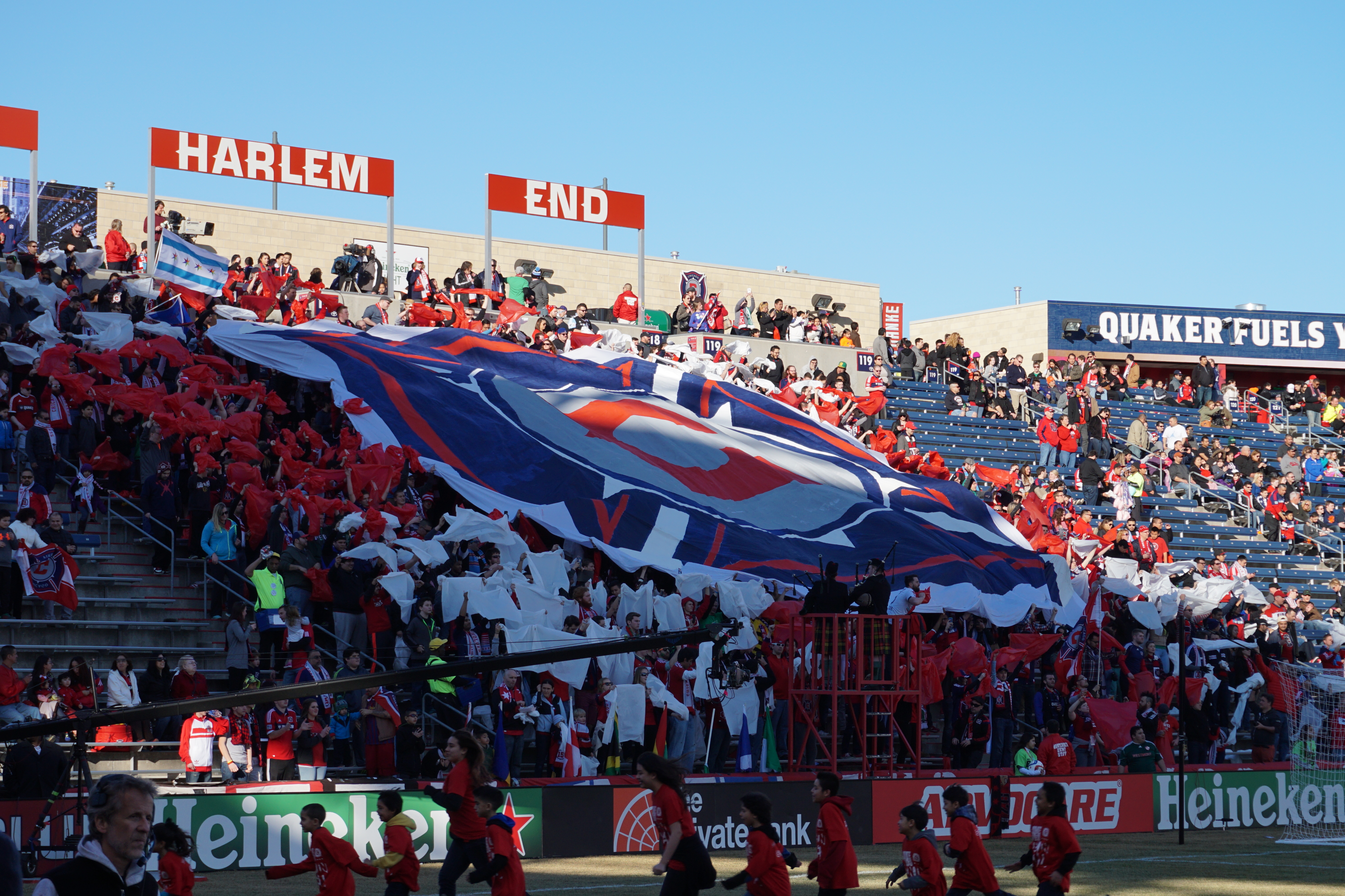 Section 8 before the match between the Chicago Fire and Vancouver Whitecaps FC at Toyota Park in Bridgeview, Illinois (United States). Final score: Chicago 0 – 1 Vancouver.